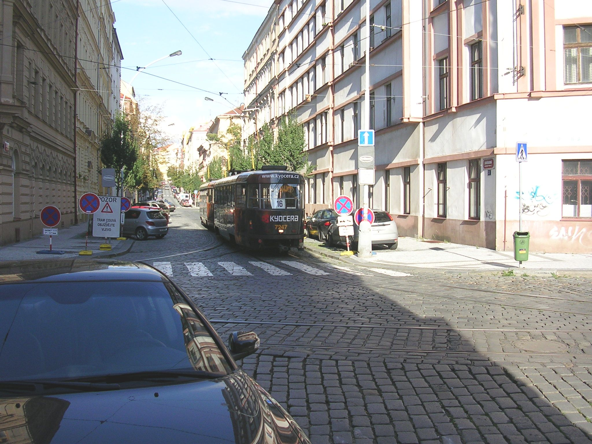 Prague, Vinohrady, Záhřebská street.